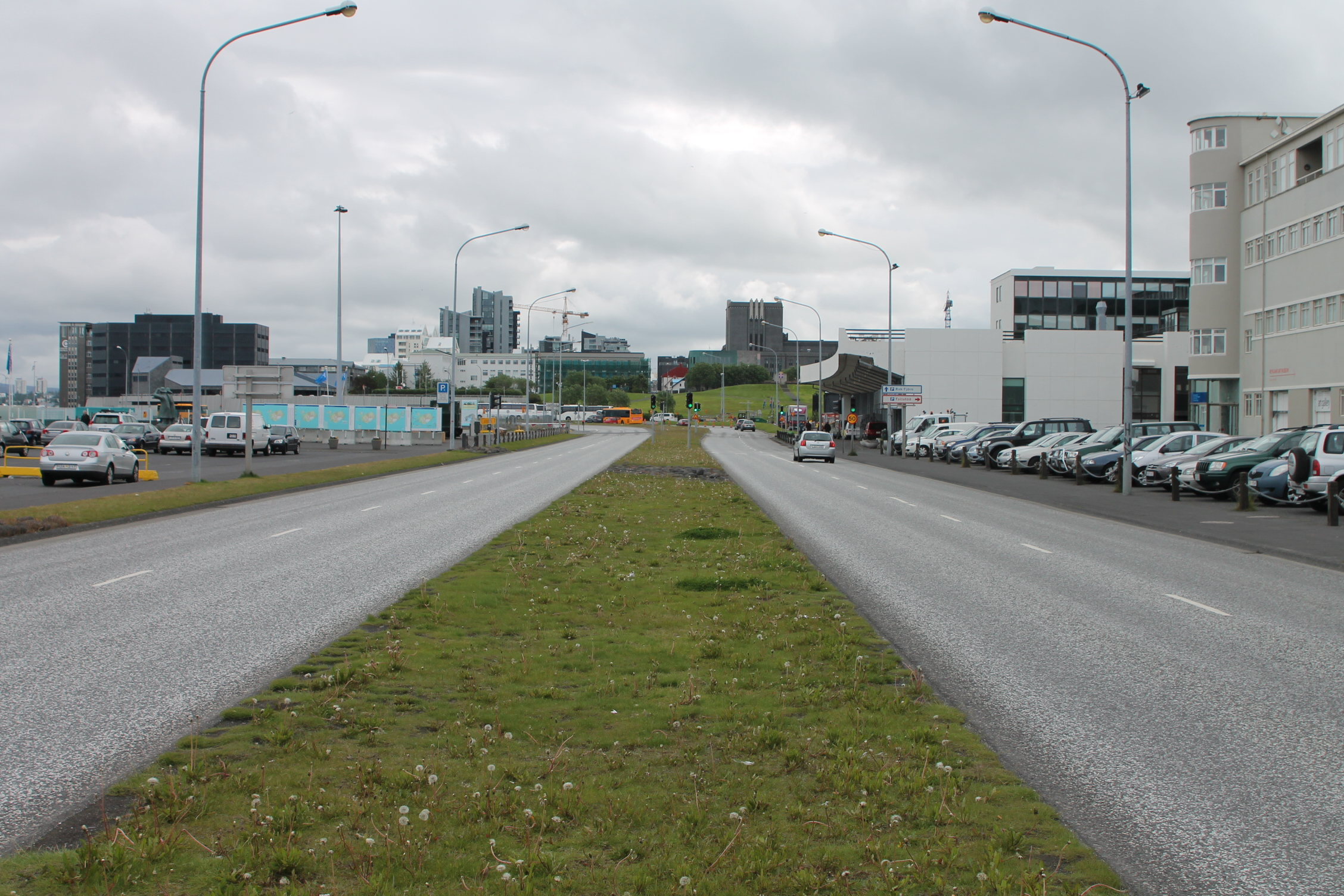 Route 41 in Reykjavík